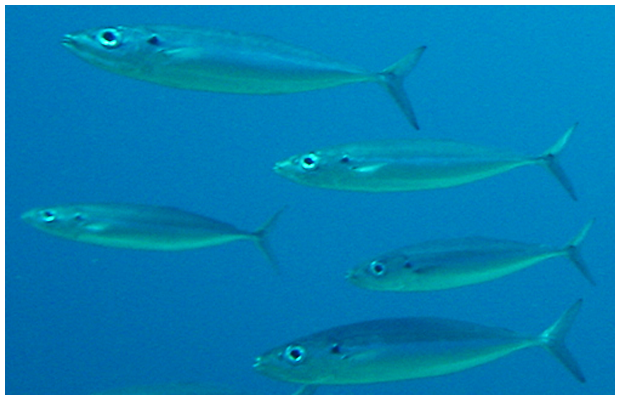 Decapterus macarellus (Cuvier, 1833)—mackerel scad. Underwater photo by W Toller.